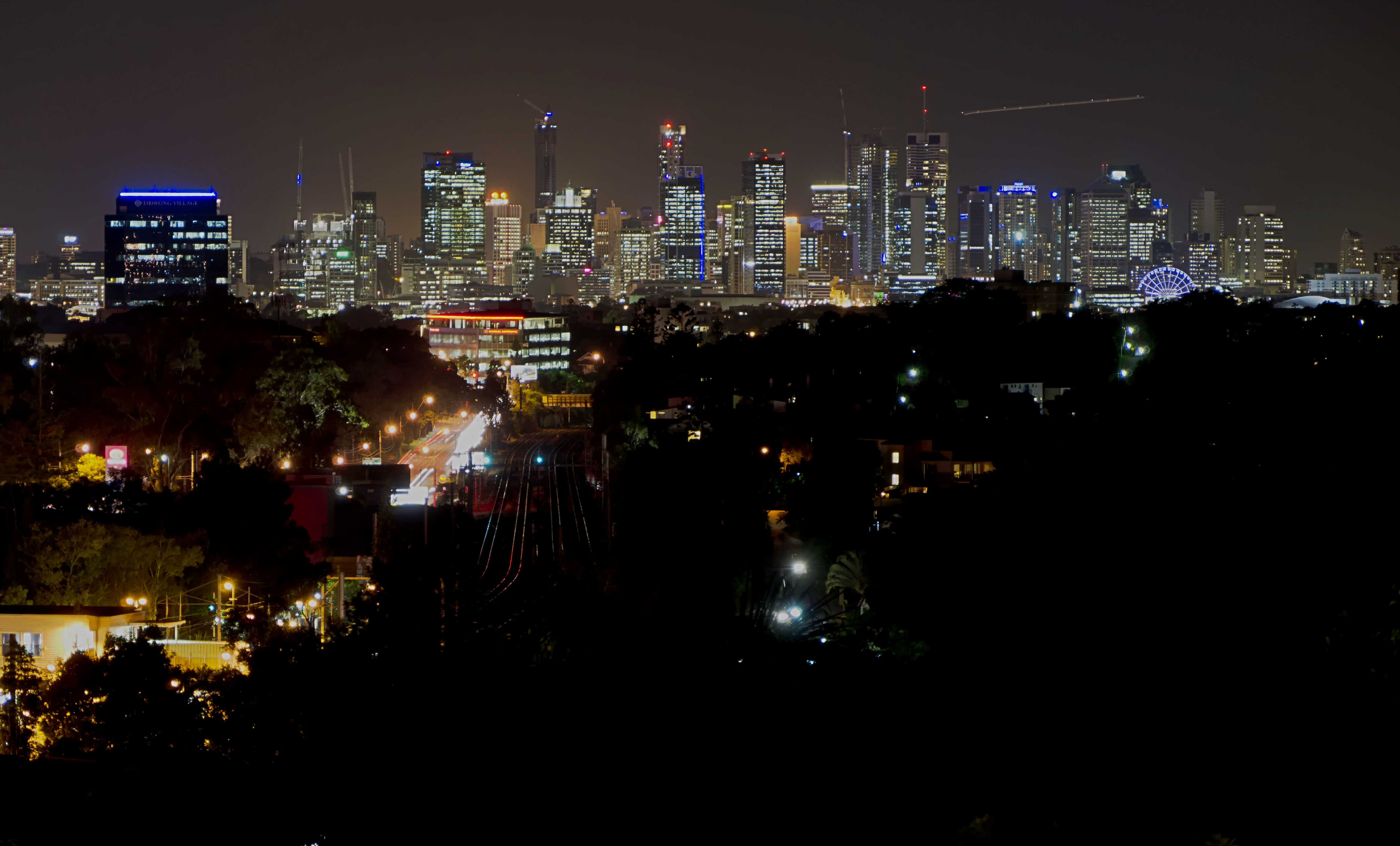 View of the Brisbane CBD from Taringa, QLD.